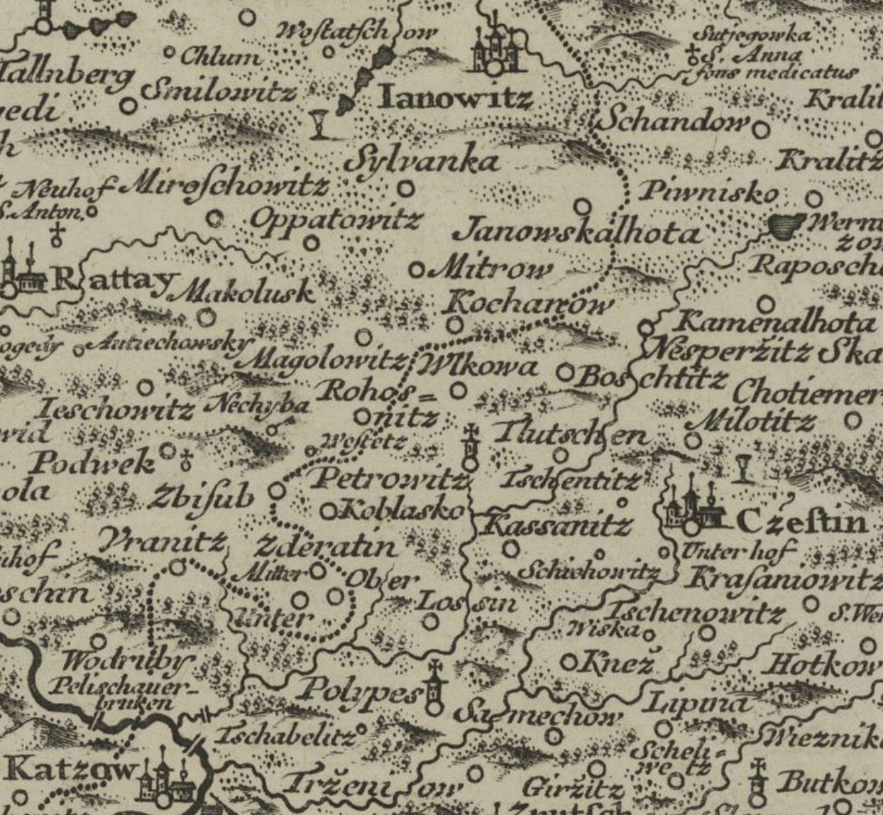 Müllers map of Bohemia from 1720, area of Petrowitz town.